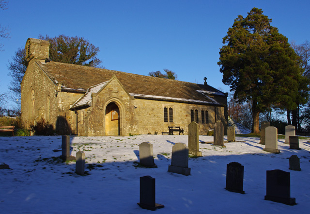 St John the Baptist's parish church, Arkholme, Lancashire, seen from the southwest in snow